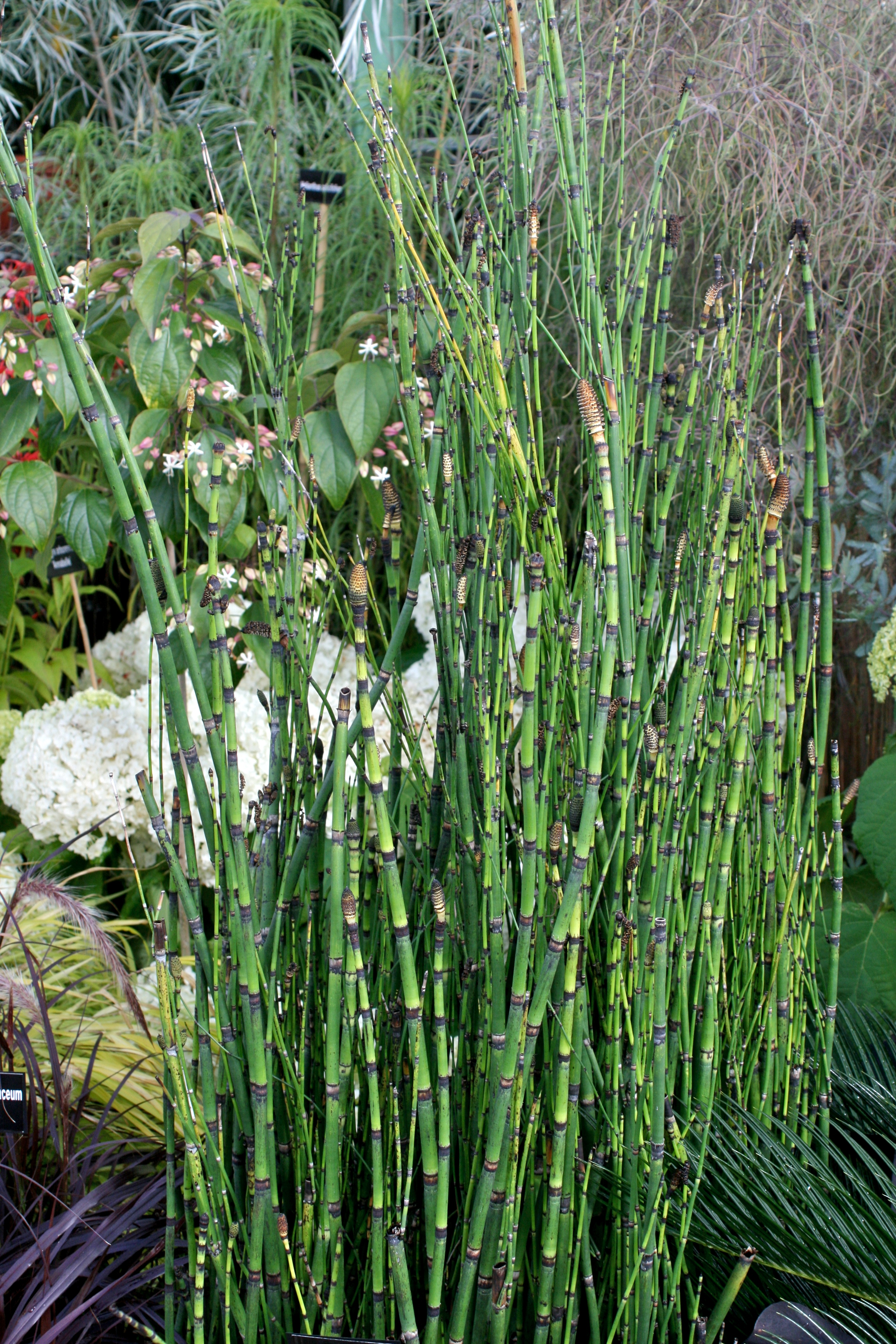 Equisetum hyemale, syn. "Equisetum camtschatcensis" nom. nud. Taken during Tatton Park Flower Show 2009